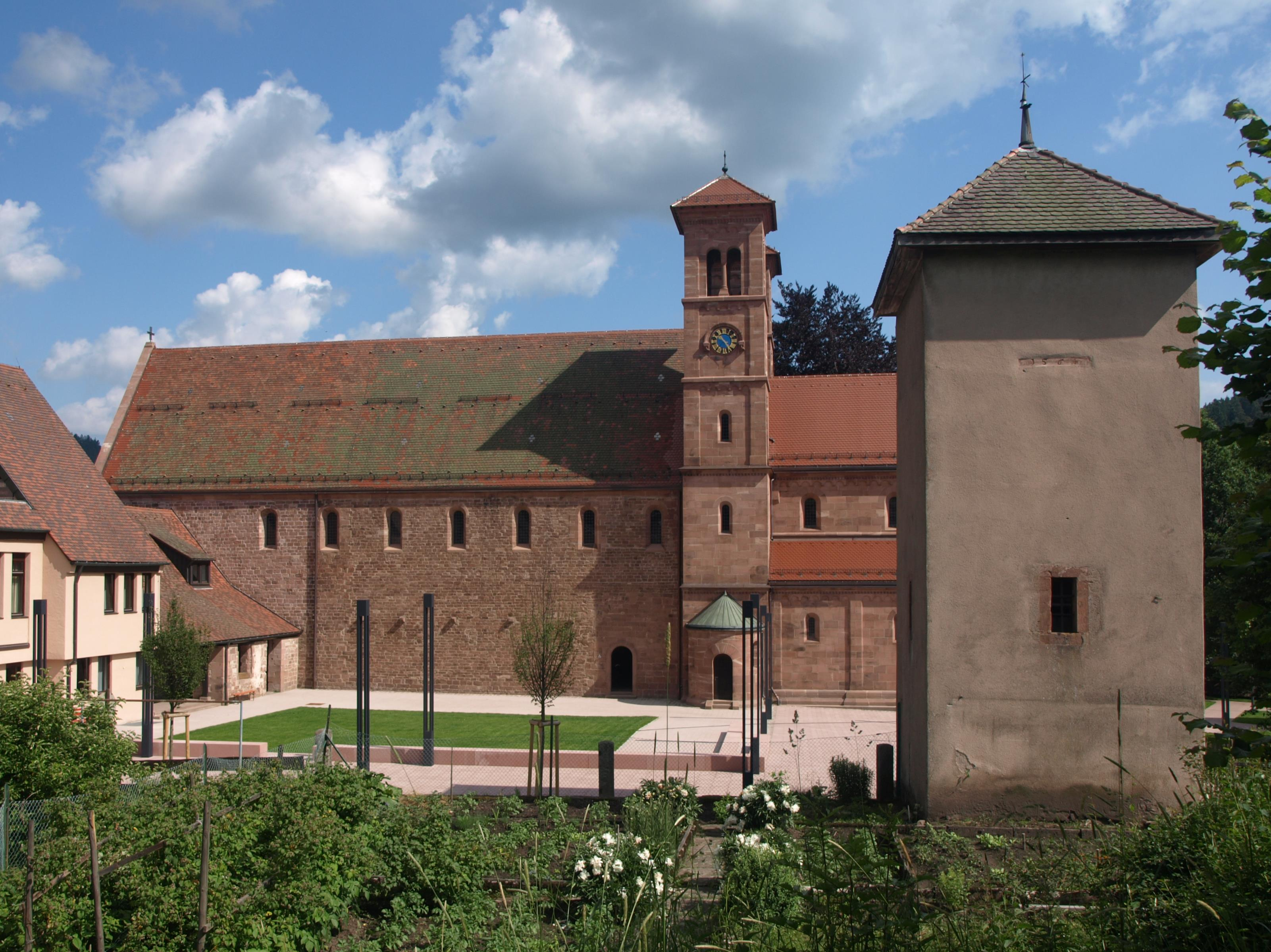 Former monastery Rechenbach with inner courtyard, newly-arranged in 2008. On the right the jail tower from 1564